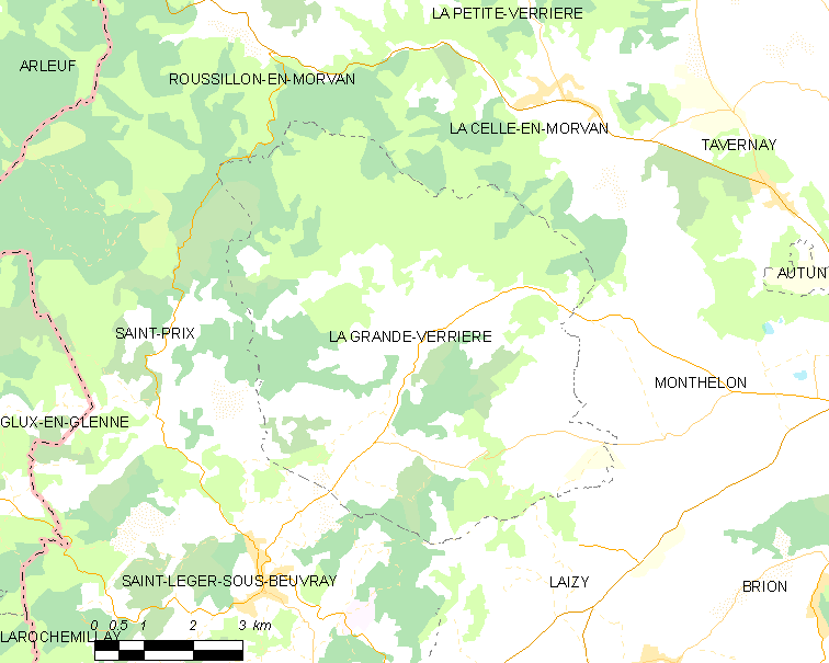 Map of French municipality